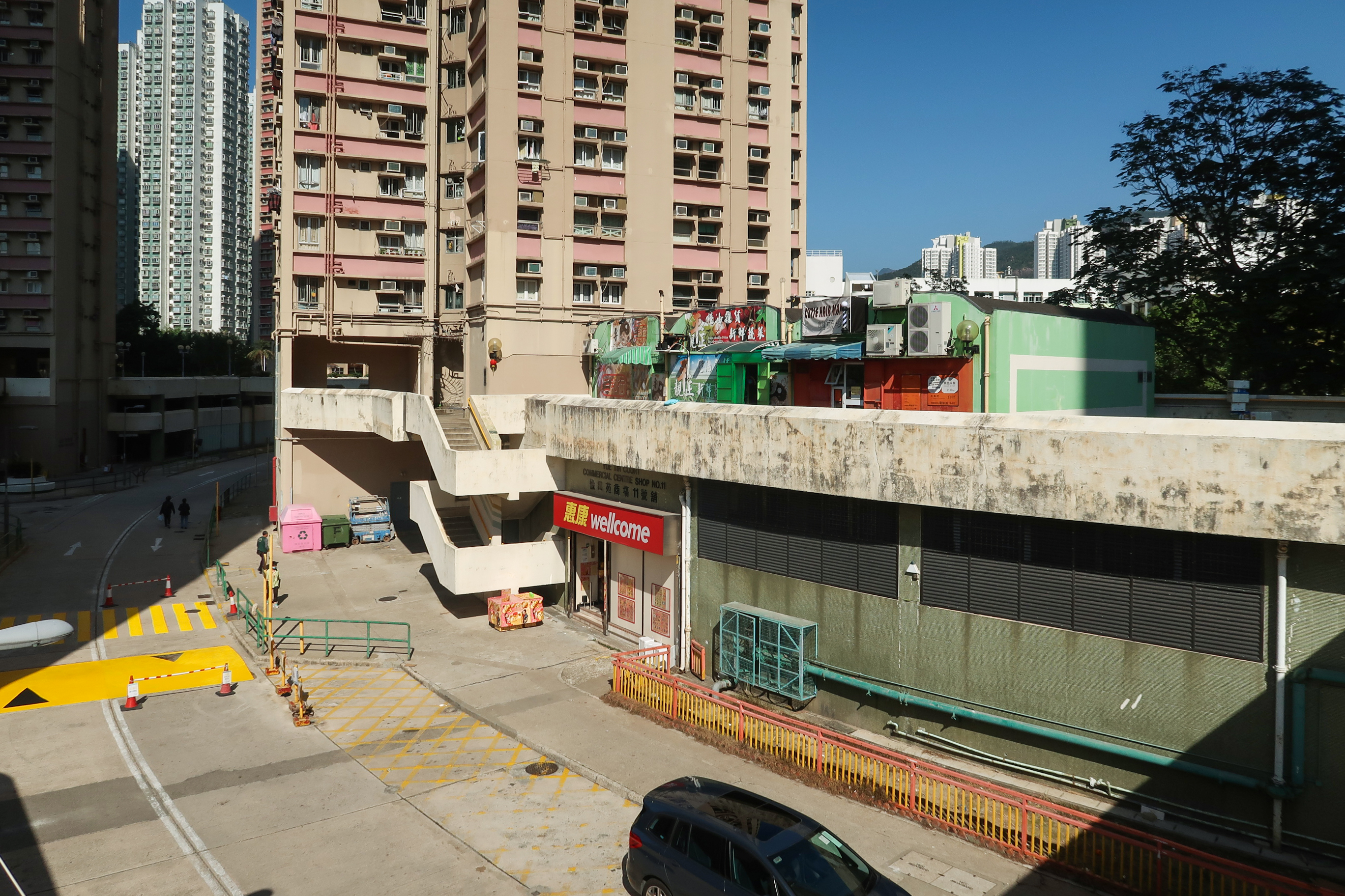 Yue Tin Court Commercial Centre